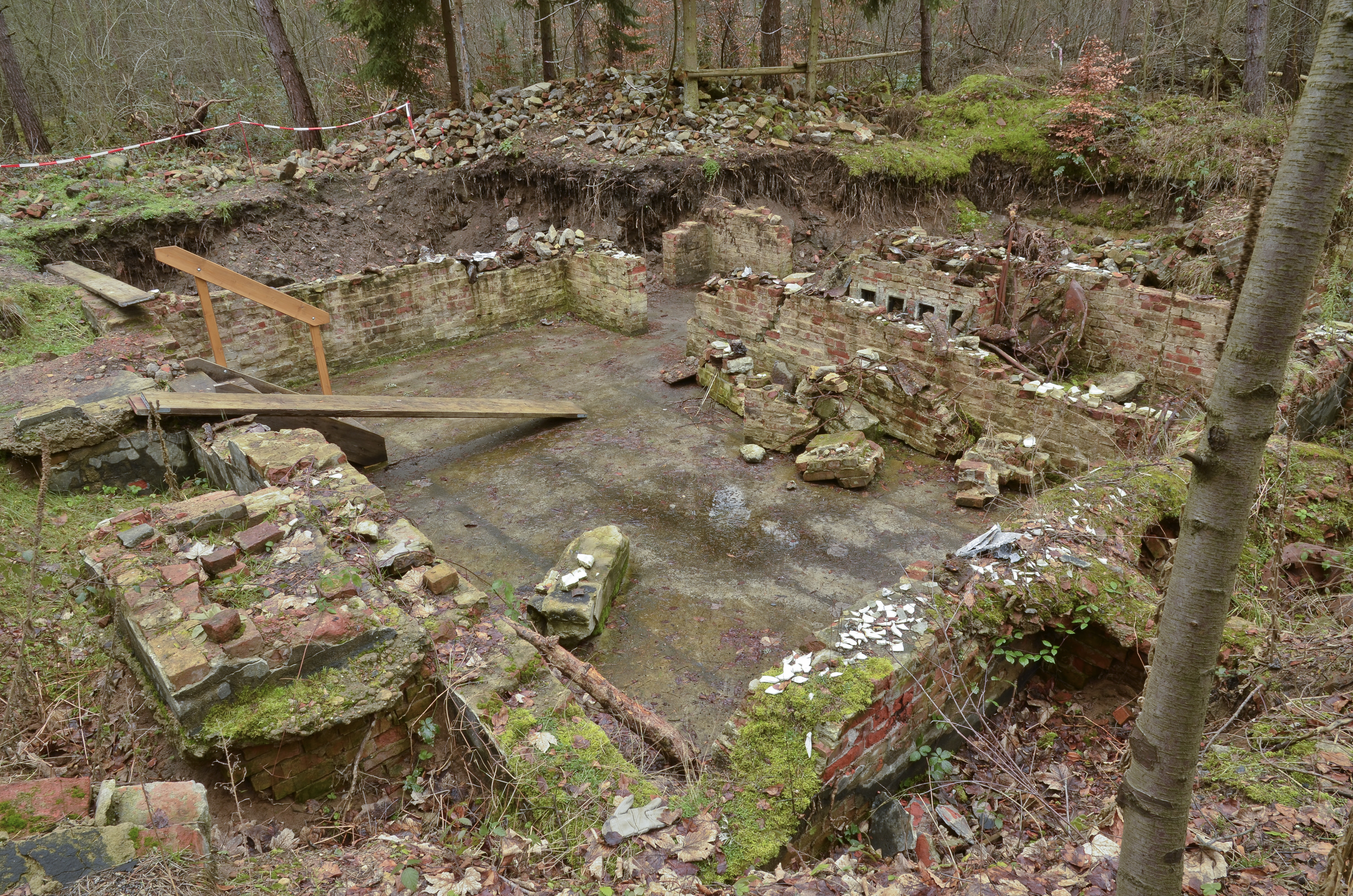 Remains of the former cellar of the kitchen barrack - labour camp Walldorf / Frankfurt Airport - Outpost of the concentration camp Natzweiler-Struthof. In use from August until December 1944. Up to 1700 Hungarien jewish women were detained in the camp for forced labour on a runway construction site of the company Züblin at the Frankfurt Airport. About 50 women didn't survive this time period of 4 months. From the remaining women, only about 300 survived further deportation and the holocaust.